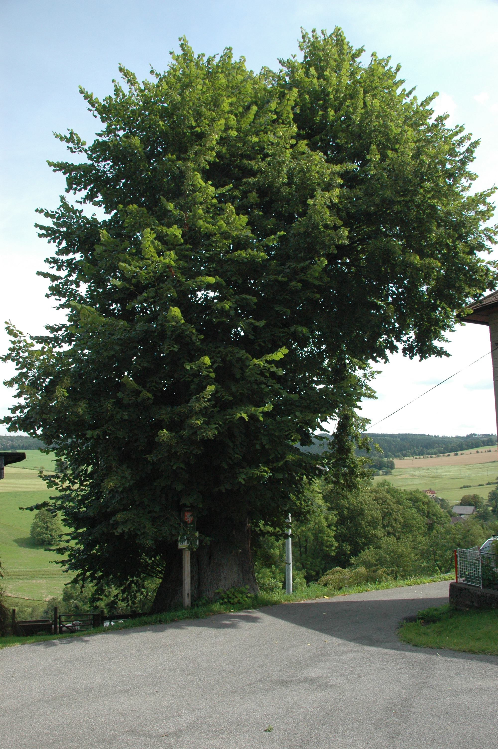 Barešova Lime